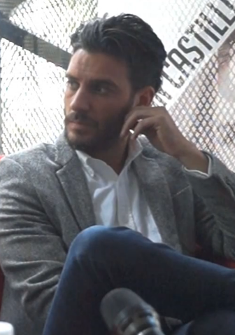 Erick Elías in 2015